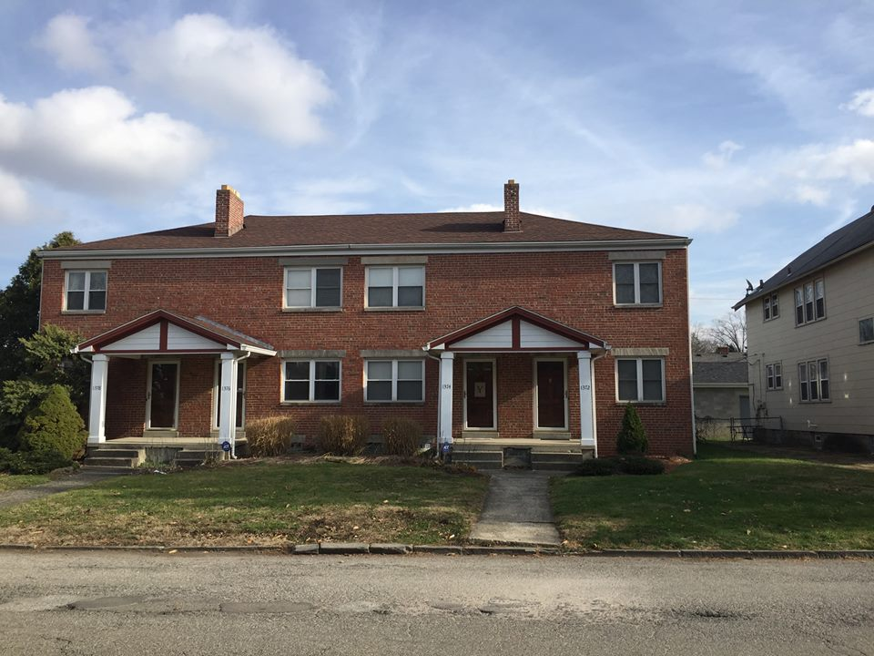 Multi-family homes in 5xNW.